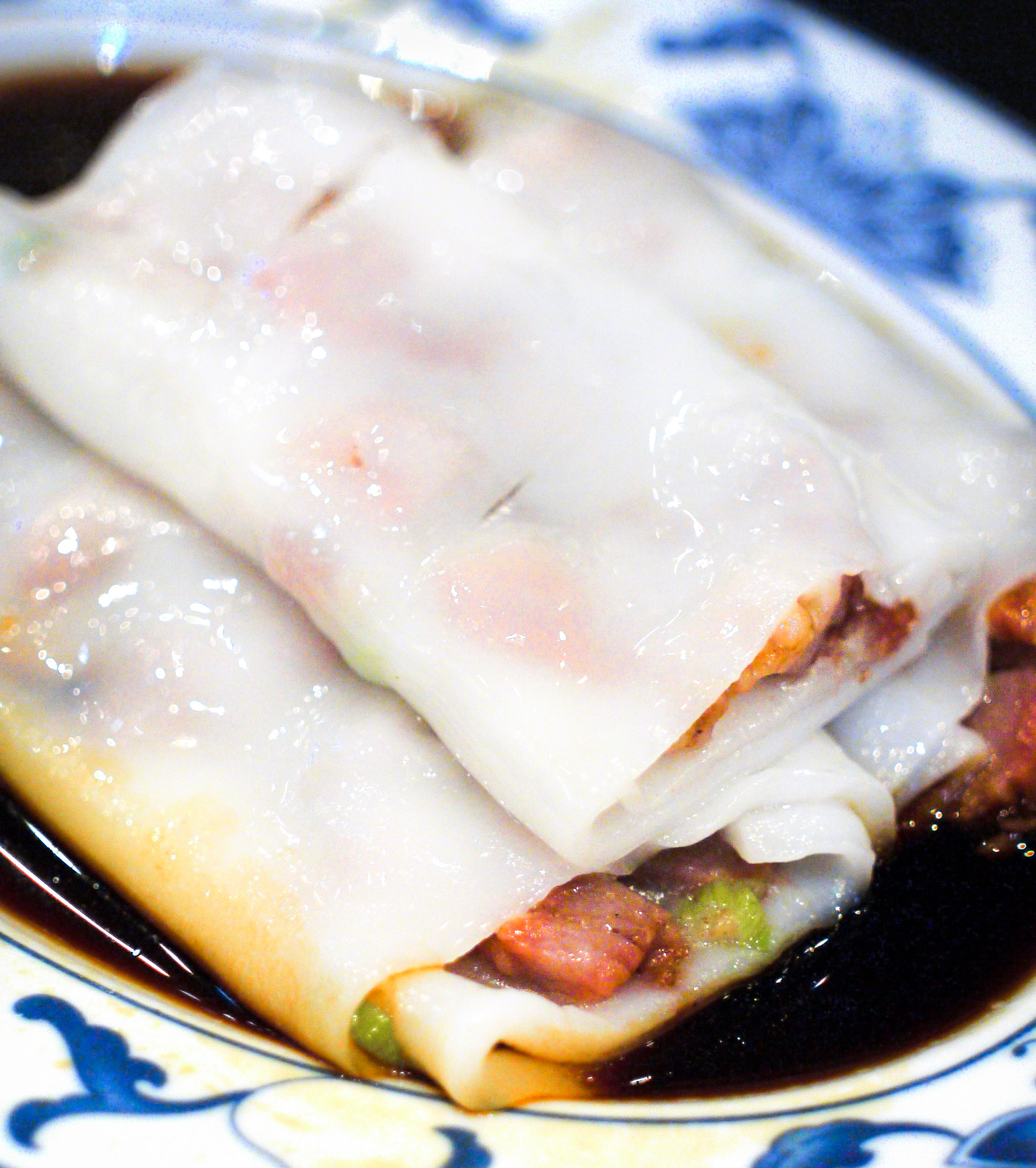 Cha siu choeng, a rice noodle roll containing red roast pork at a Cantonese restaurant in The Hague, Netherlands.